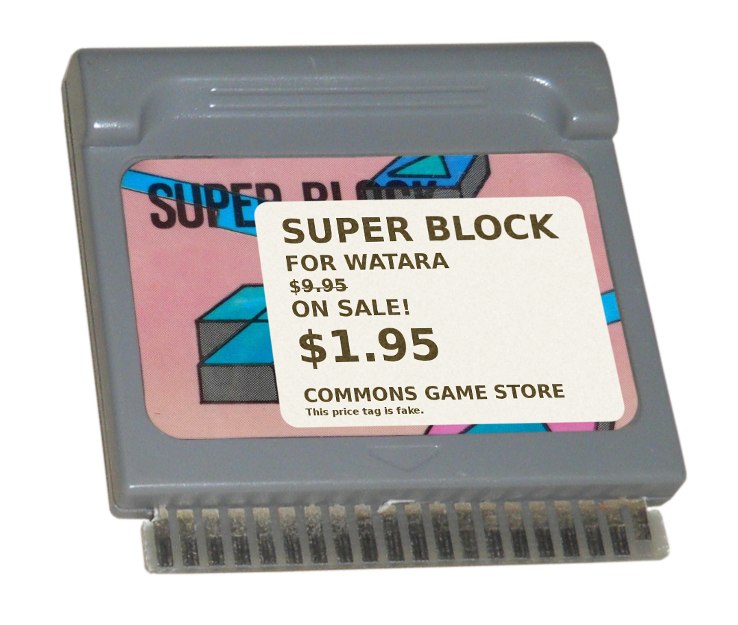 Actually a Crystball cartridge with the label from Super Block pasted over it. Fake price tag to make sure DM can be justified.